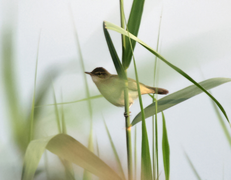 Paddyfield Warbler Acrocephalus agricola in Kolkata, West Bengal, India.